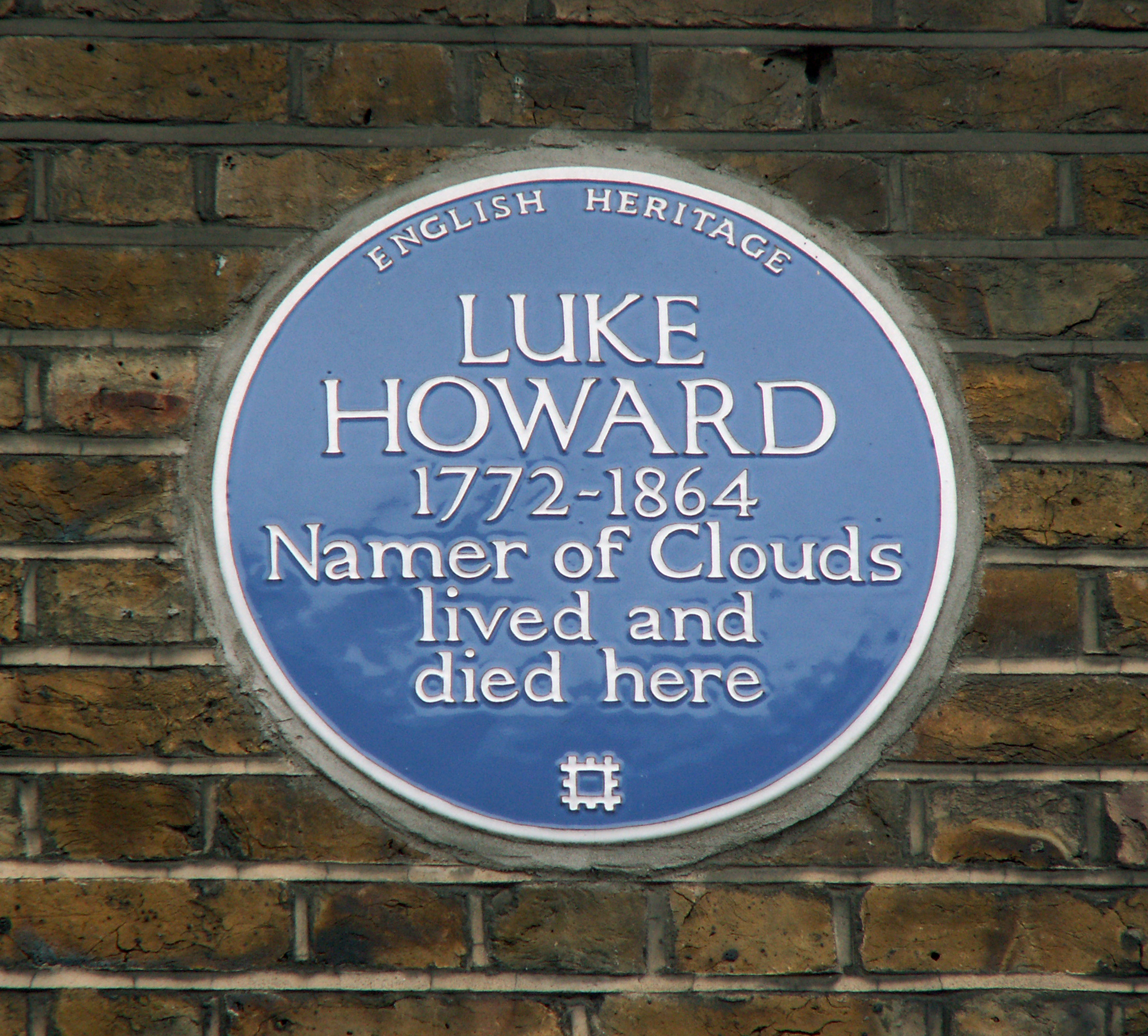 Luke Howard - "namer of clouds". English Heritage Blue plaque on the building at 7 Bruce Grove, Tottenham, London N17.